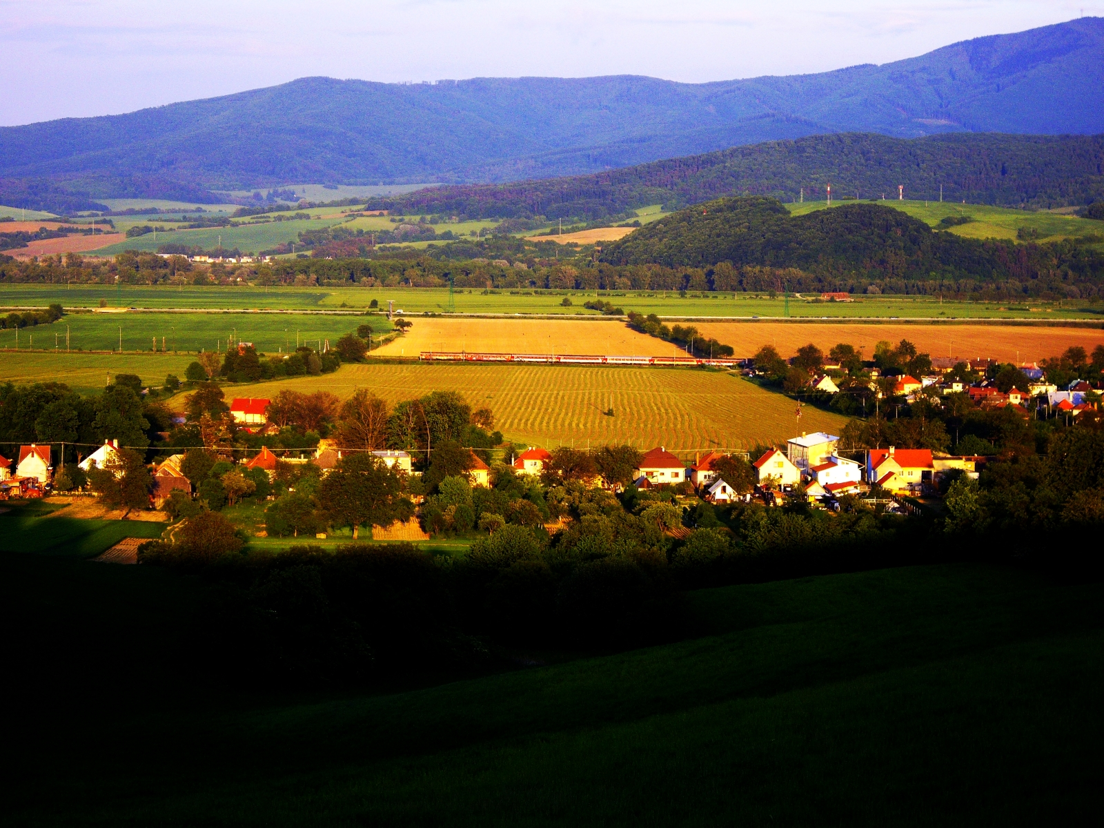 Scenery of Melčice-Lieskové, from near hill...